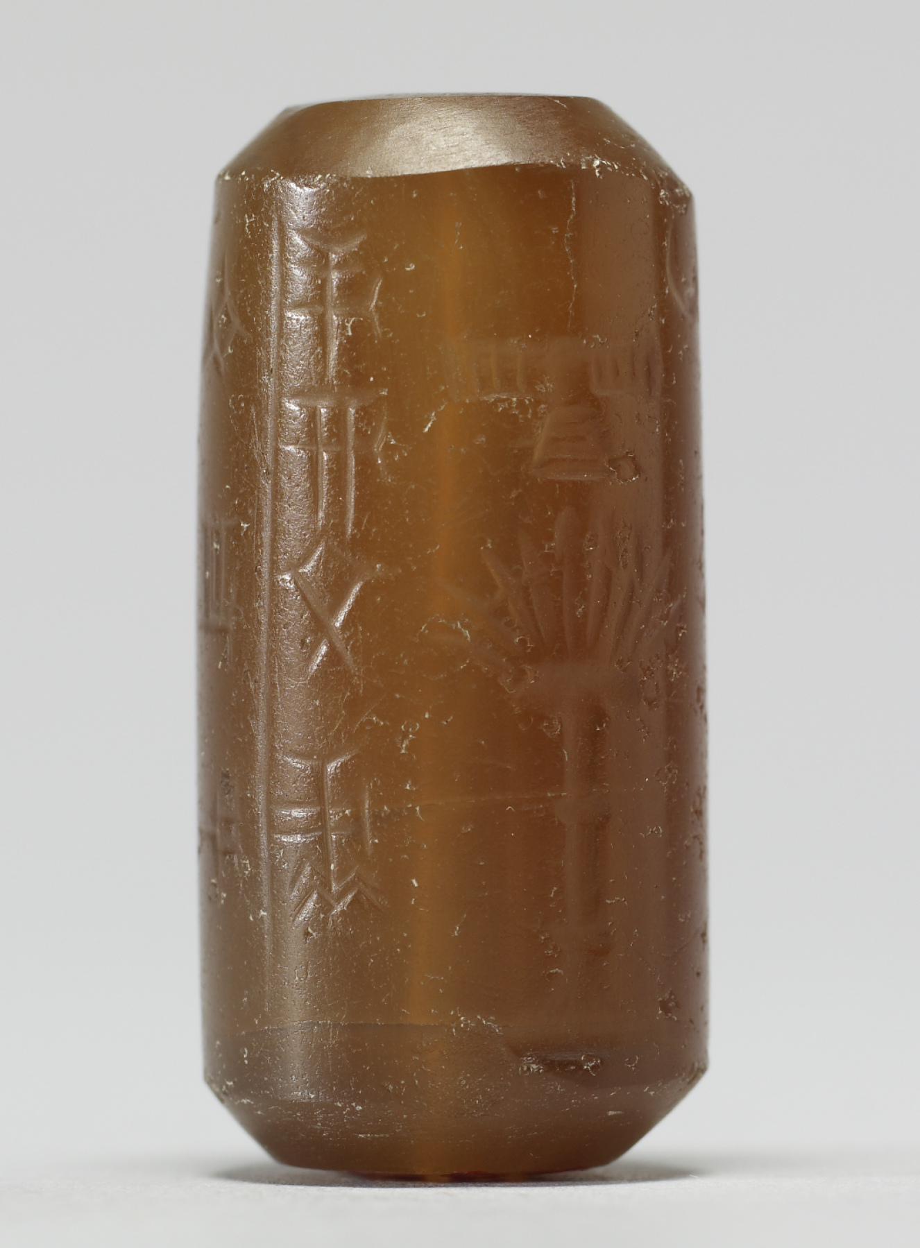 The scene on this cylinder seal depicts a standing figure in long robe, with a star in the field behind him and a standing altar (?) with a winged disk of Assur above it, as well as an inverted crescent. The scene is completed by a two-line cuneiform inscription.